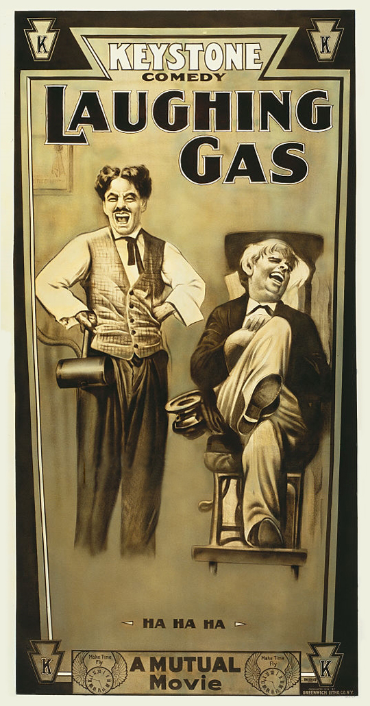 Poster for the film Laughing Gas (1914).